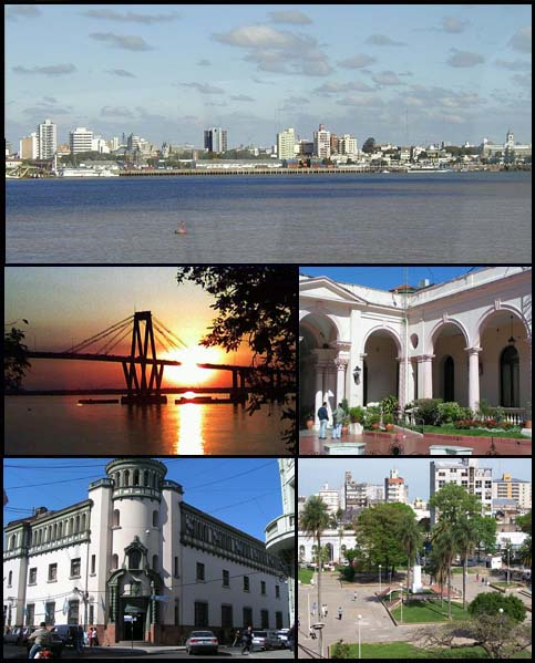 Corrientes City, Argentina